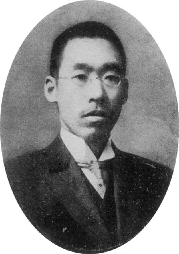 Toraki Seto.